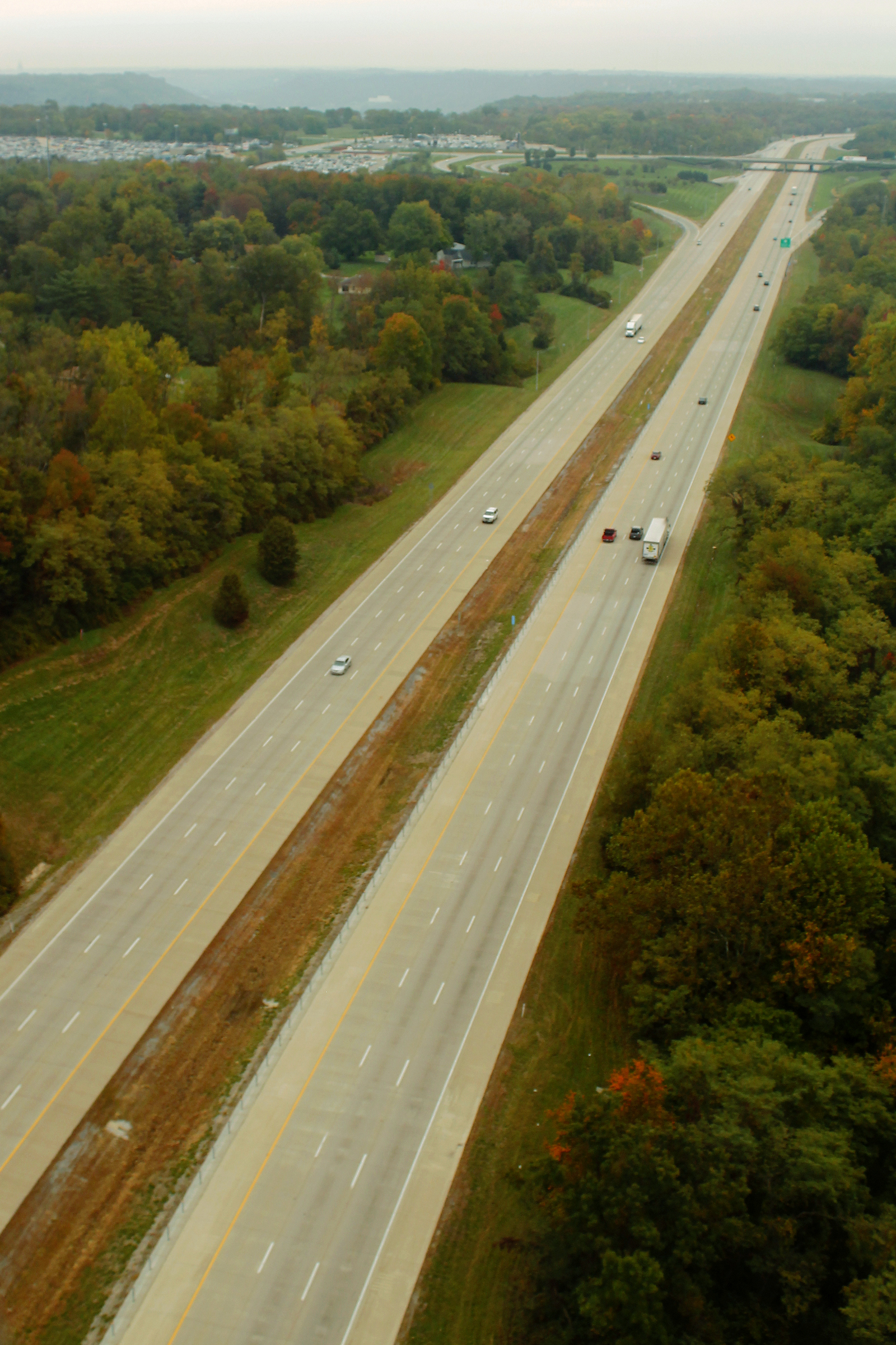 Coming in for a landing at CVG airport.